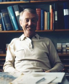 Professor Jan Rydberg in his cabinet